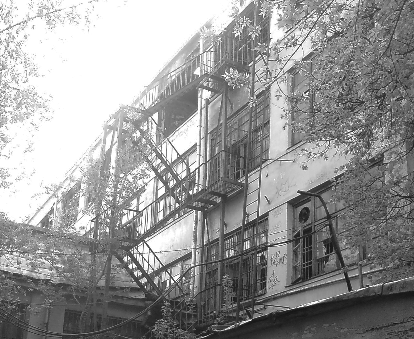 The print shop "OGONYOK" designed by El Lissitzky, located at 55°46′38″N 37°36′39″E / 55.777277°N 37.610828°E / 55.777277; 37.610828 17, 1st Samotechny Lane. It is Lissitzky's sole tangible work of architecture. It was commissioned in 1928 by Ogonyok magazine to be used as a print shop. In June 2007 the independent Russky Avangard foundation filed a request to list the building on the heritage register. In September 2007 the city commission (Moskomnasledie) approved the request and passed it to the city government for a final approval, which did not happen. In October 2008, the abandoned building was badly damaged by fire.